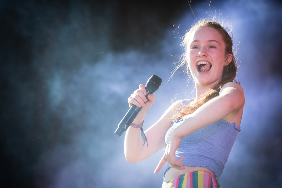 Sigrid at Stavernfestivalen. The concert was part of Stavernfestivalen and took place on 13. July 2018 in Stavern. Lineup:Sigrid (vocal)Unidentified (keyboard)Unidentified (drums)Unidentified (bass guitar)Unidentified (backing vocal)